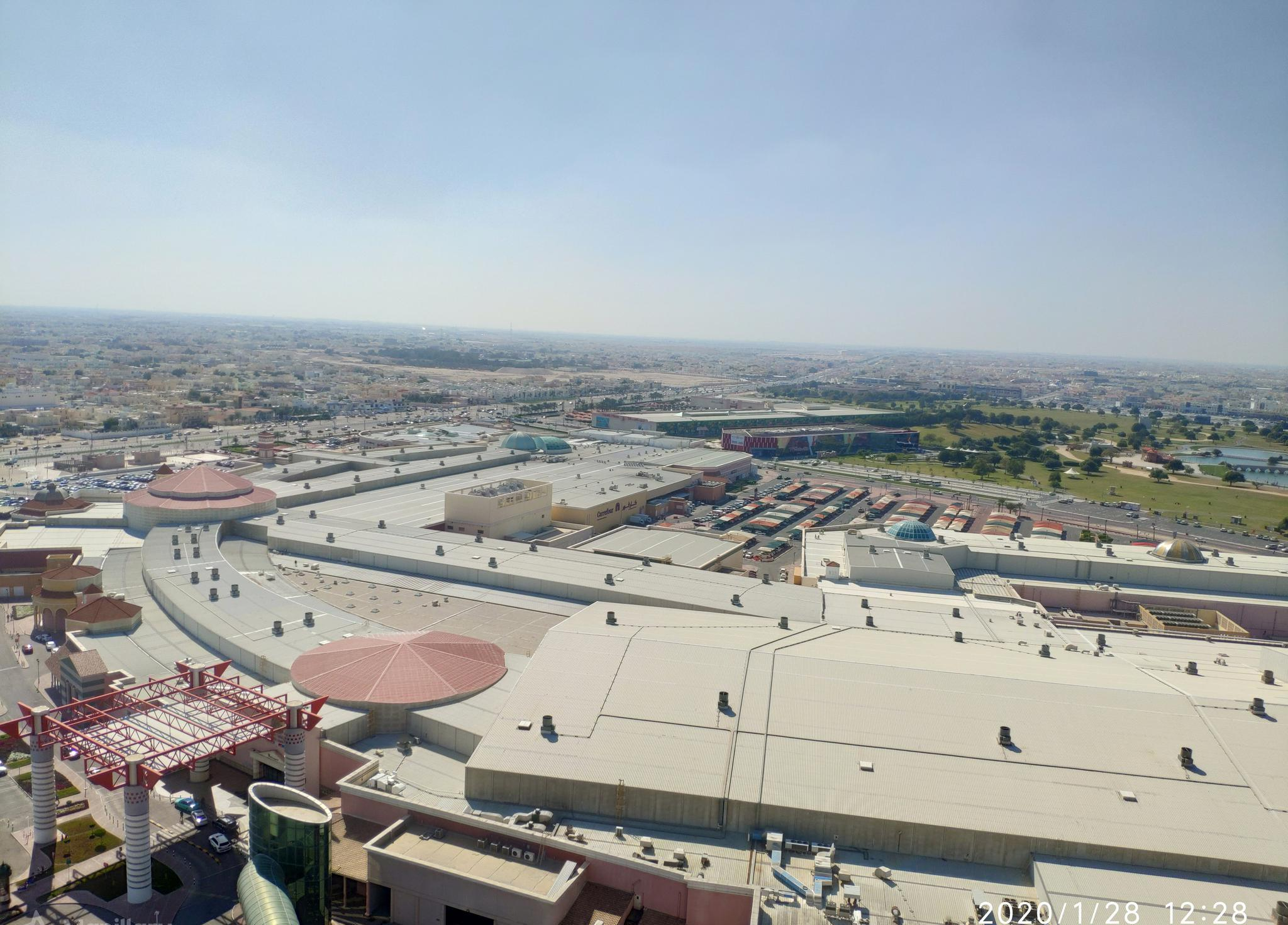 Overhead view of Villaggio Mall in the Baaya district of Al Rayyan, Qatar. The Aspire Park and the Al Aziziya district can also be seen.